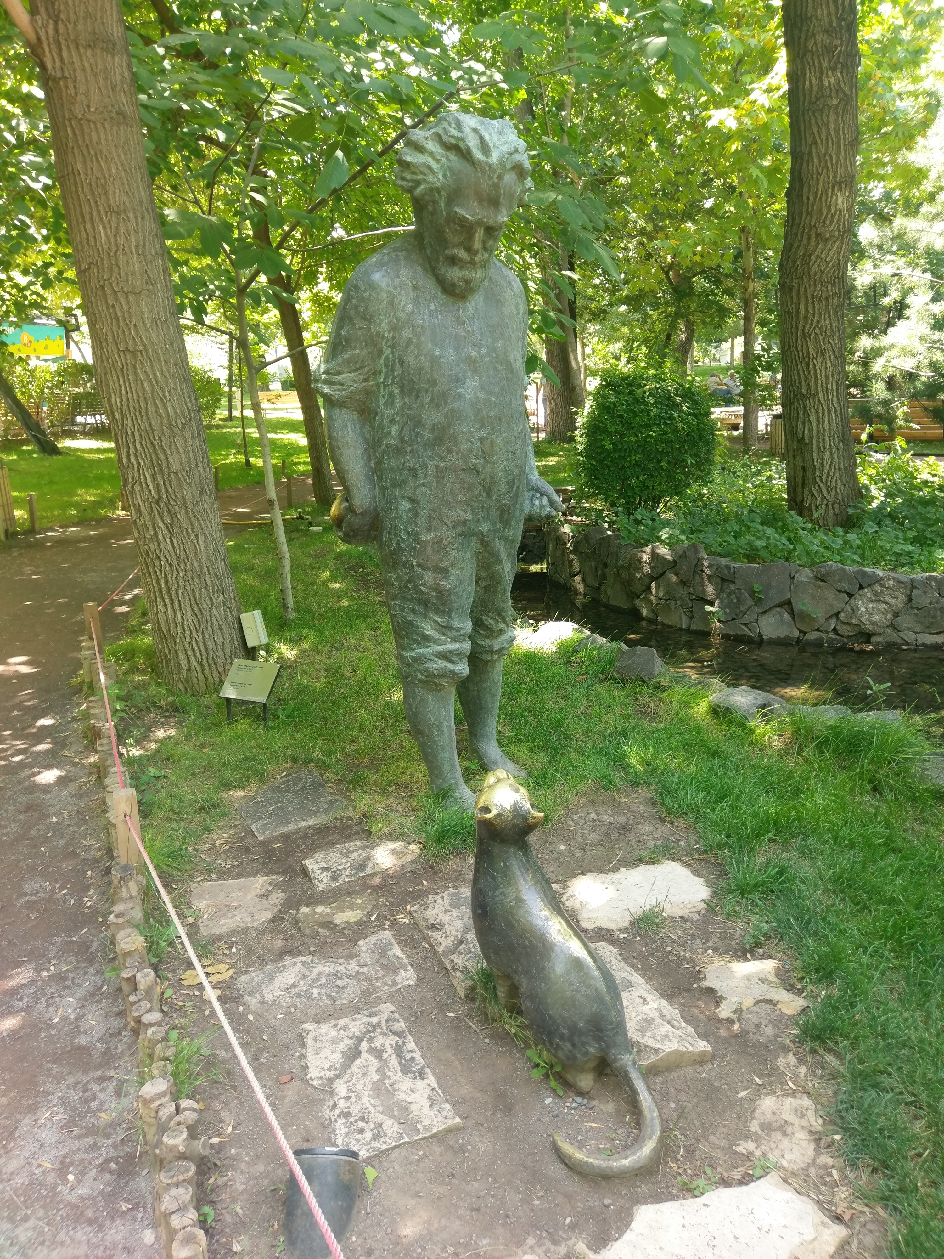 Lovers' park in Yerevan, June 2018